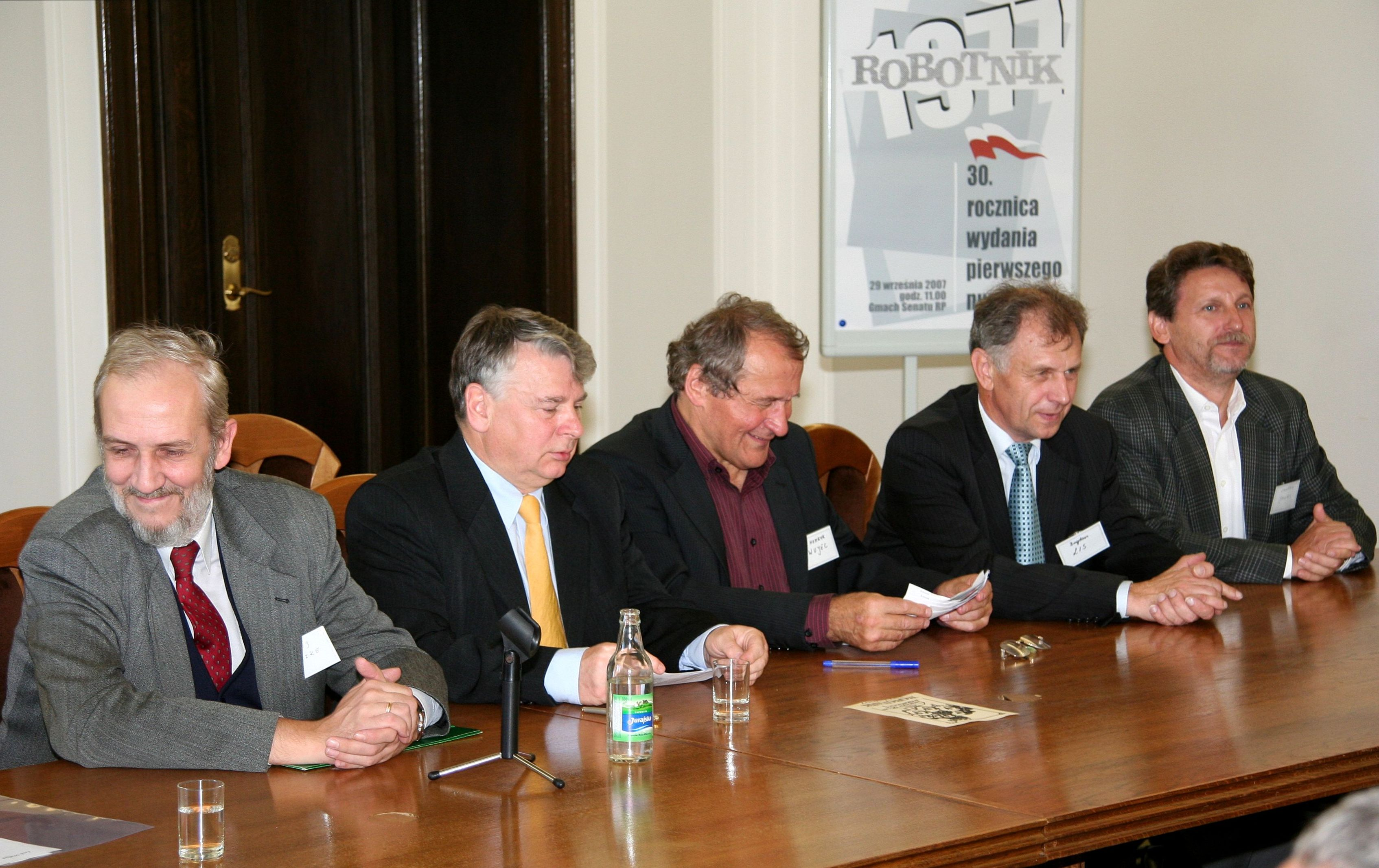 Meeting commemorating 30th anniversary of the first issue of "Robotnik" held in the Polish Senate